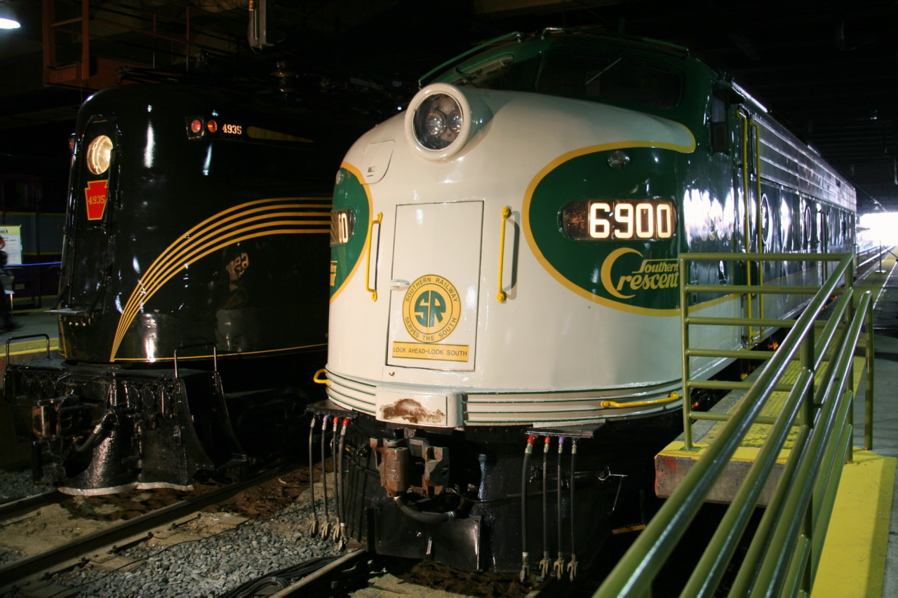 The Southern used the E-8s to pull passenger trains, including the Southerner, Crescent, Tennesseean and Royal Palm. They were first painted green with imitation aluminum striping, changing to black in the late 1950s.